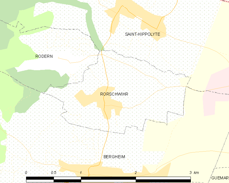 Map of French municipality